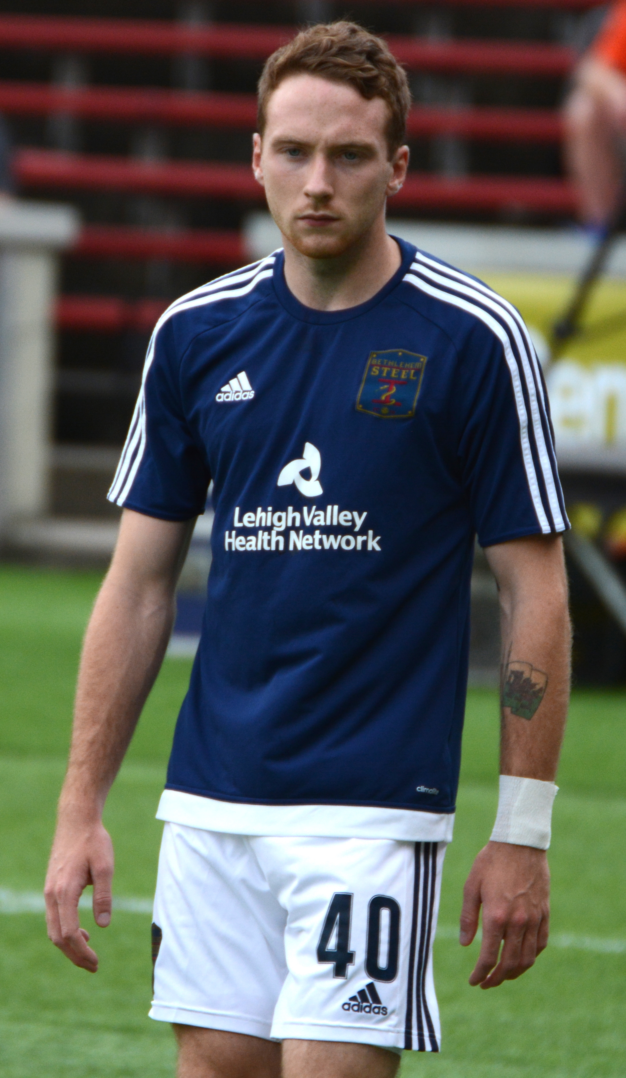 Josh Heard Taken during a match between FC Cincinnati and Bethlehem Steel FC at Nippert Stadium in Cincinnati, USA on May 20, 2017.